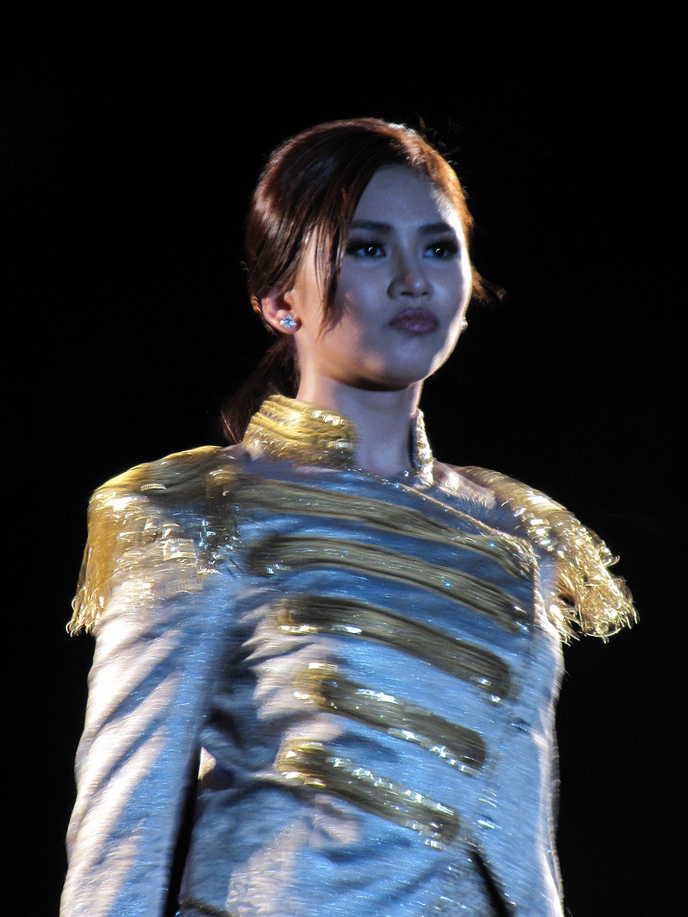 Sarah Geronimo During her Concert in Dubai.